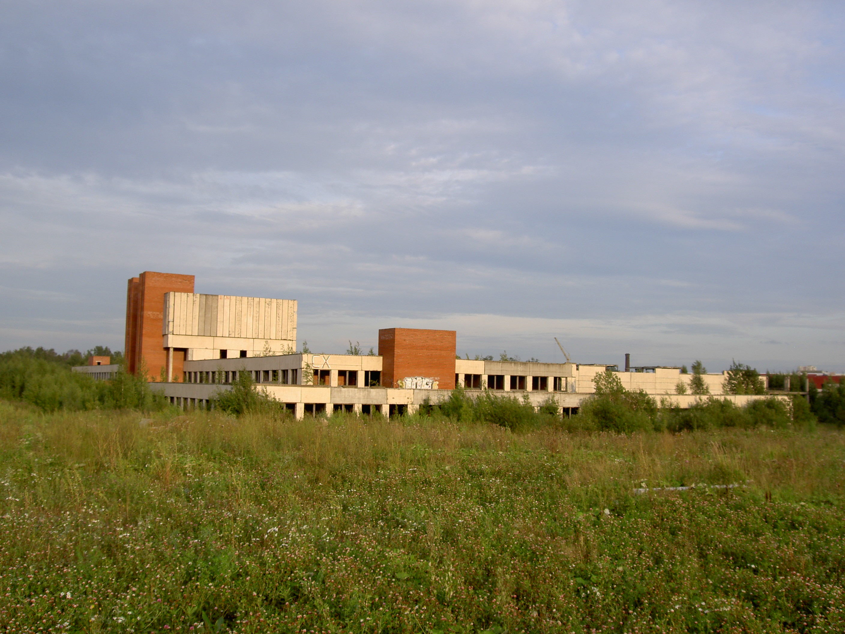 Saint Petersburg. Uncompleted tram depot № 11.